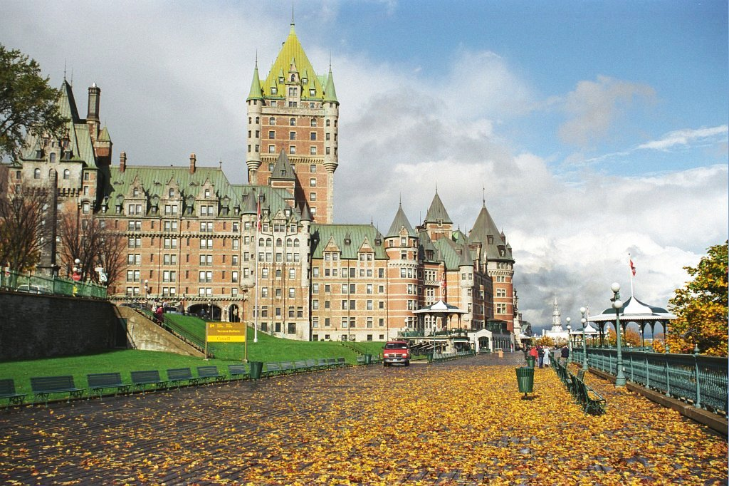 Chateau Frontenac in Quebec, Canada